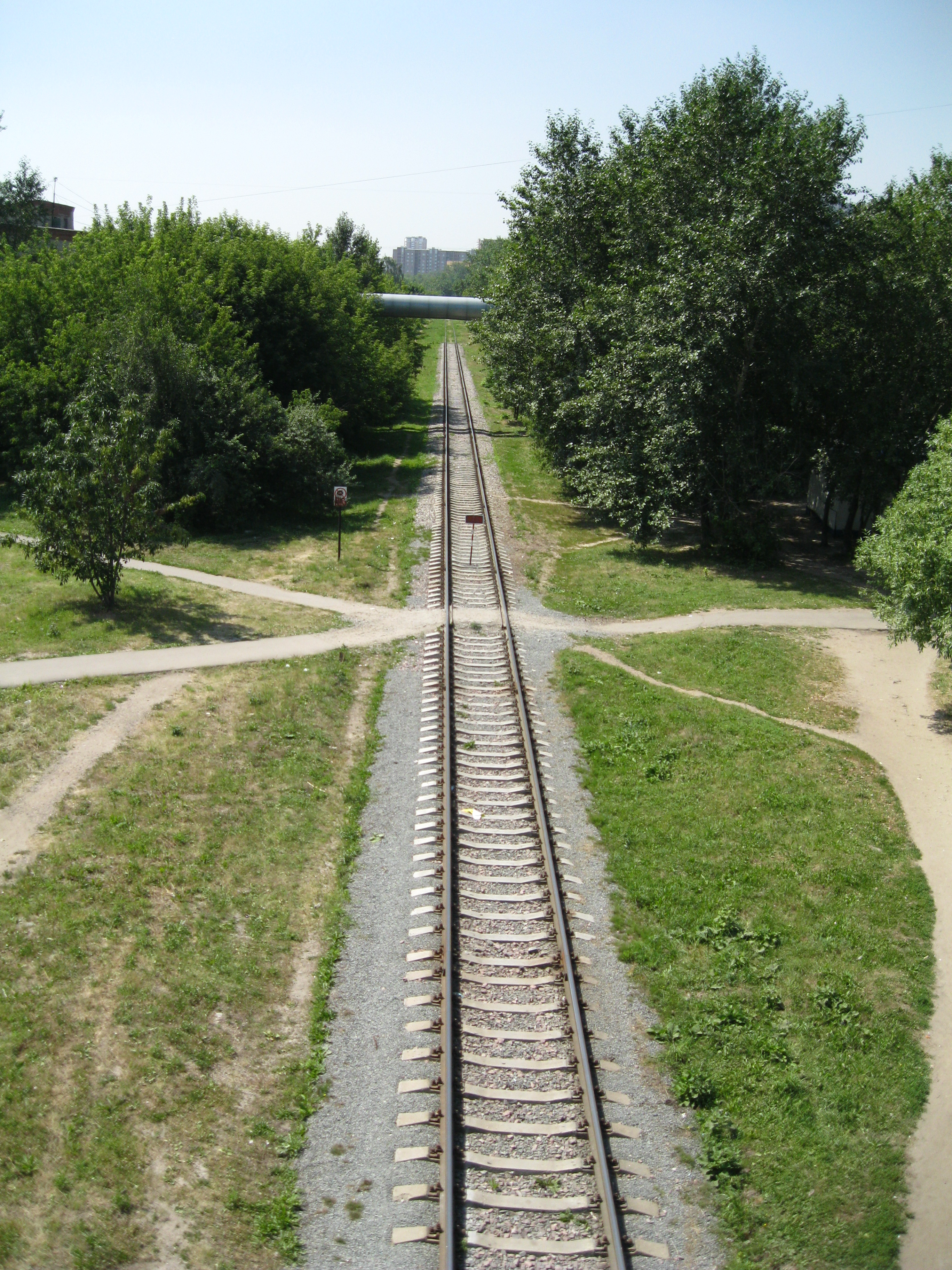 Medvedkovo railway in Moscow, Russia